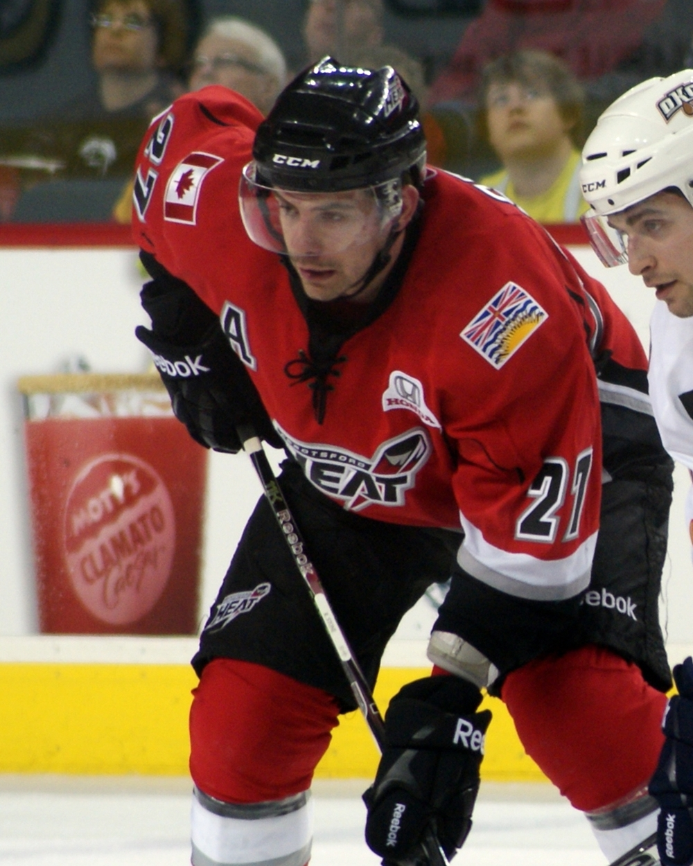 Photo was taken on February 18, 2011 during an American Hockey League (AHL) regular season game.